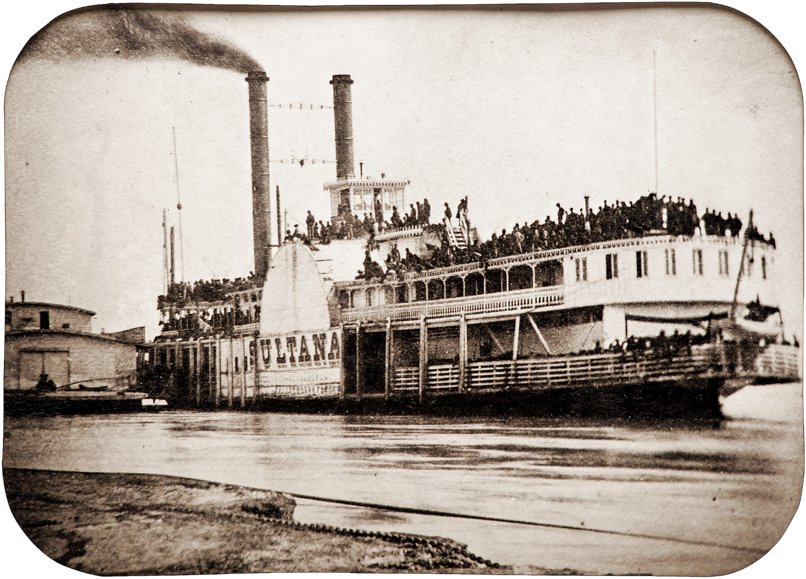 Whole plate tintype, which appears to be a period enlargement made from a carte de visite of the Sultana taken at Helena, AR, on April 26, 1865, a day before she was destroyed. The view captures a large crowd of paroled Union prisoners packed tightly together on the steamboat's decks.